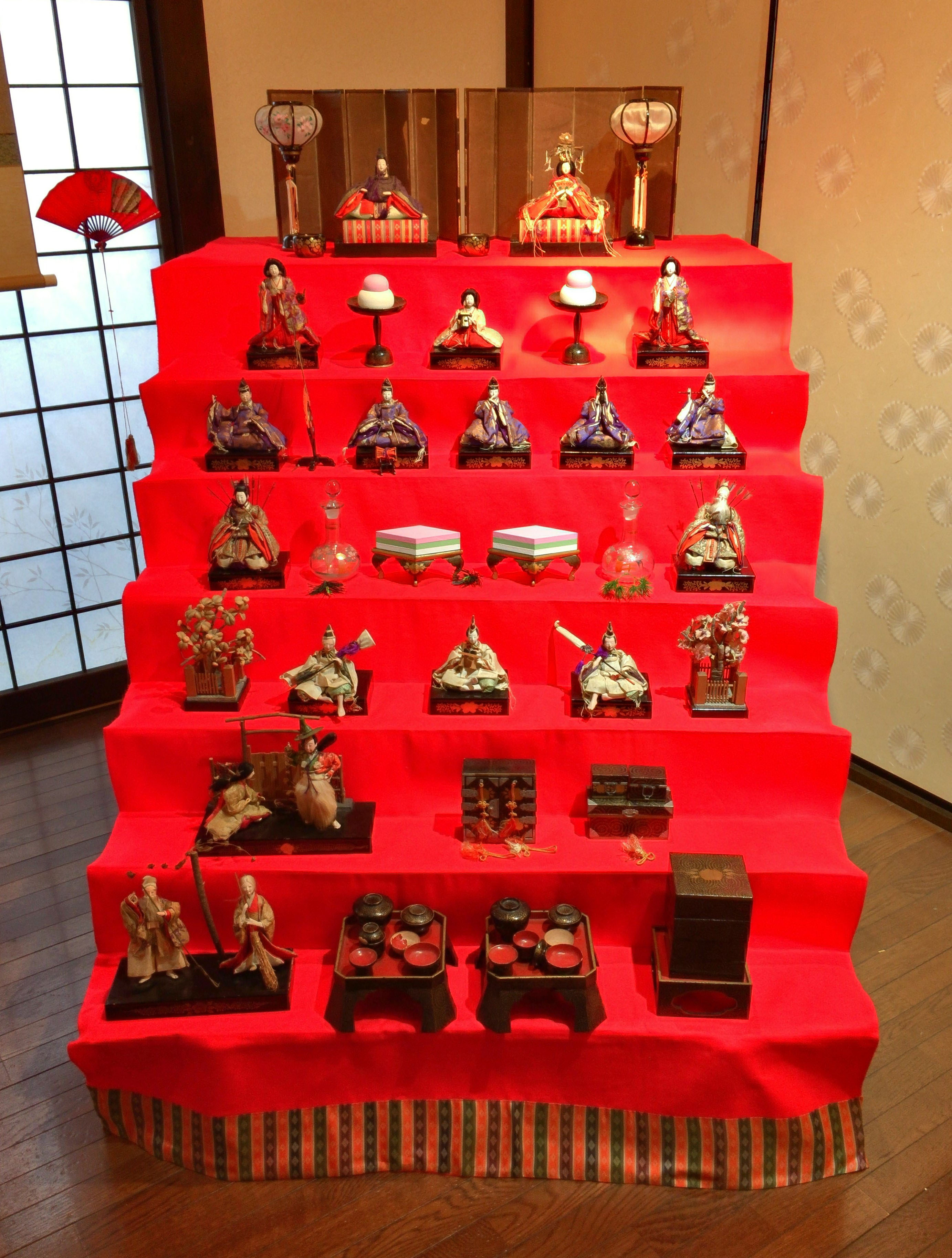 Seven-tiered Hina-ningyō (ornamental dolls of Hinamatsuri) in Japan